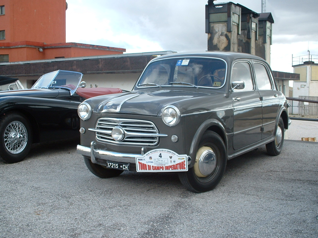 Fiat 1100-103, 1954